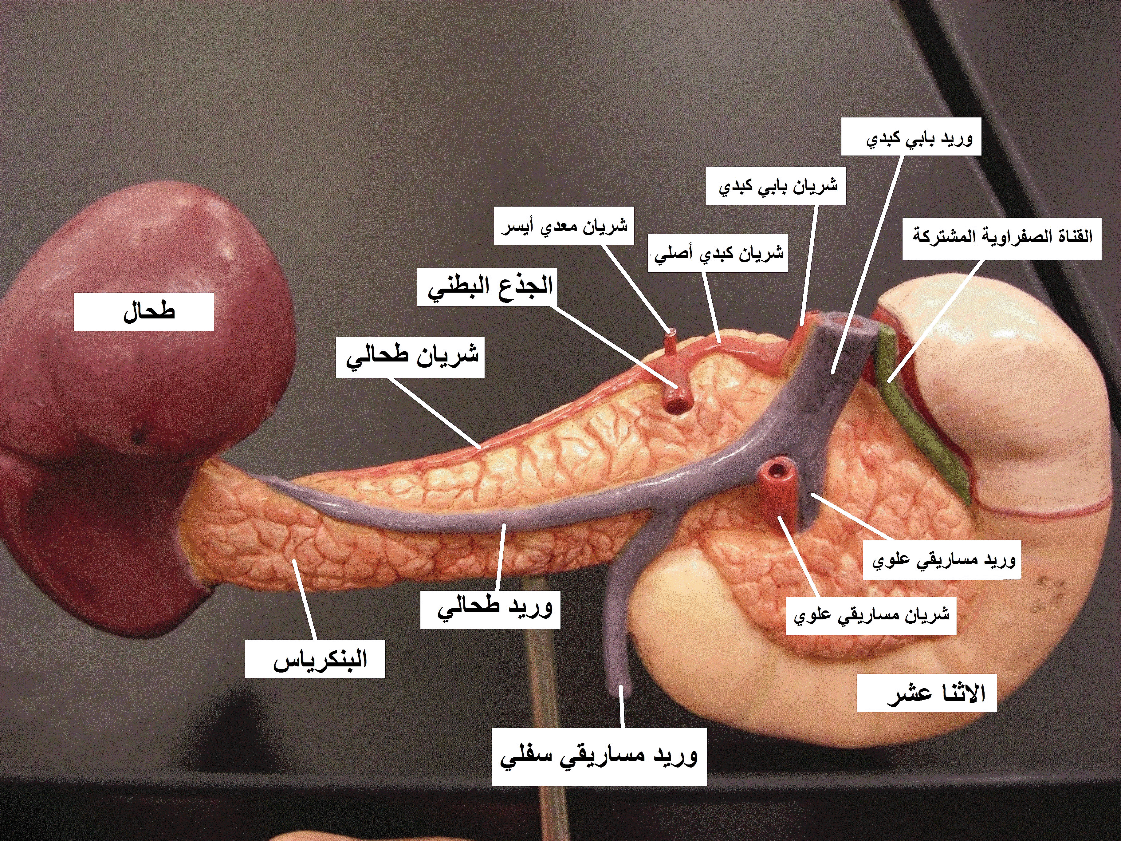 Pancreas/splenic arteries and veins. Posterior view